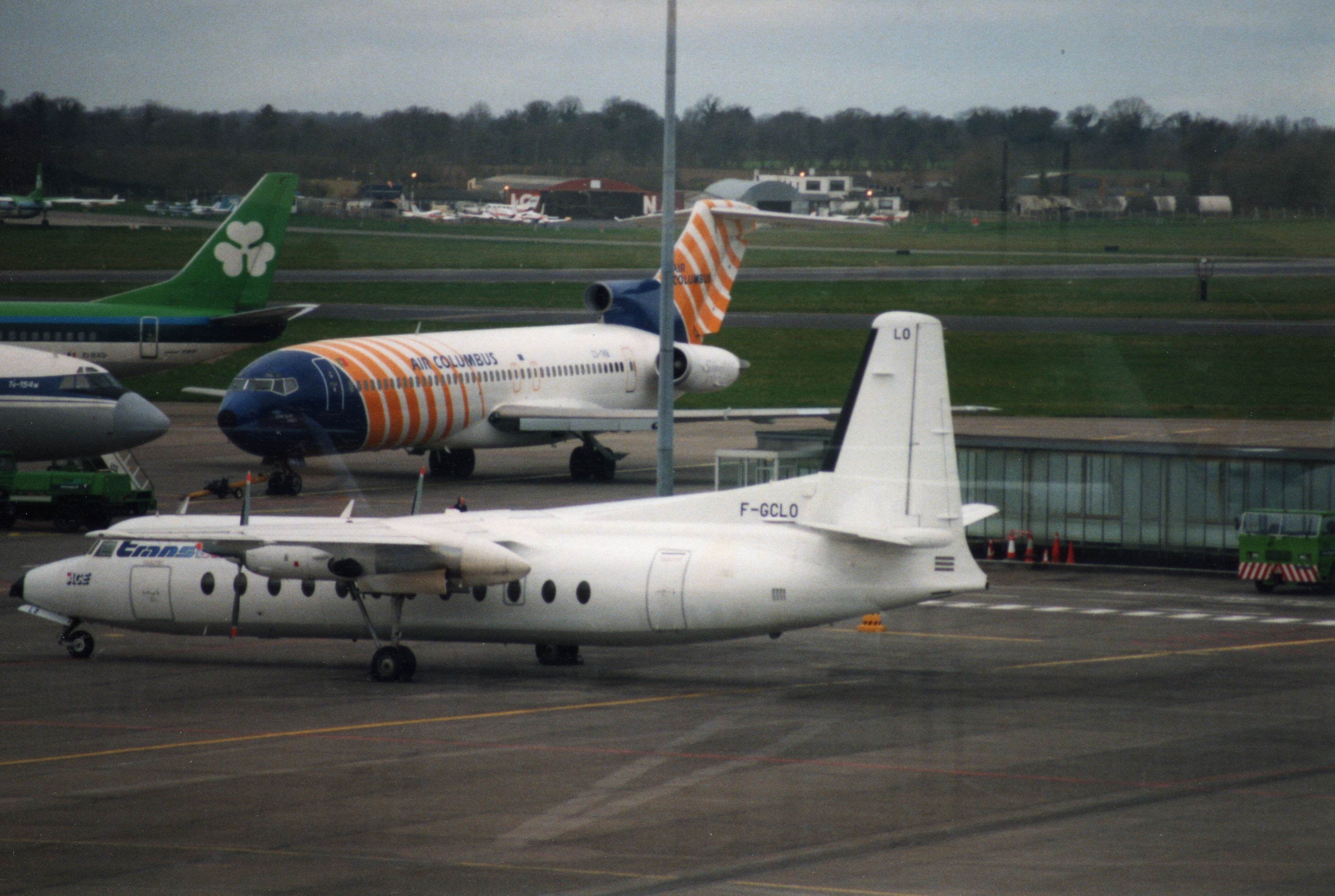 ACE Transvalair (F-GCLO) Fairchild-Hiller FH-227B aircraft, Dublin Airport, Dublin, Republic of Ireland, February 1993 (Air Columbus Boeing 727 aircraft in background)